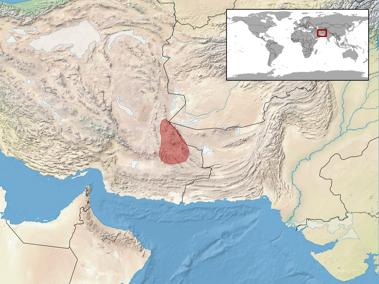 geographic distribution of Cyrtopodion kirmanense syn. Cyrtopodion kirmanensis (Native: Iran, Islamic Republic of)